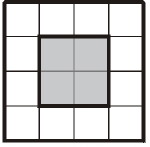 MahaPithaM(4)